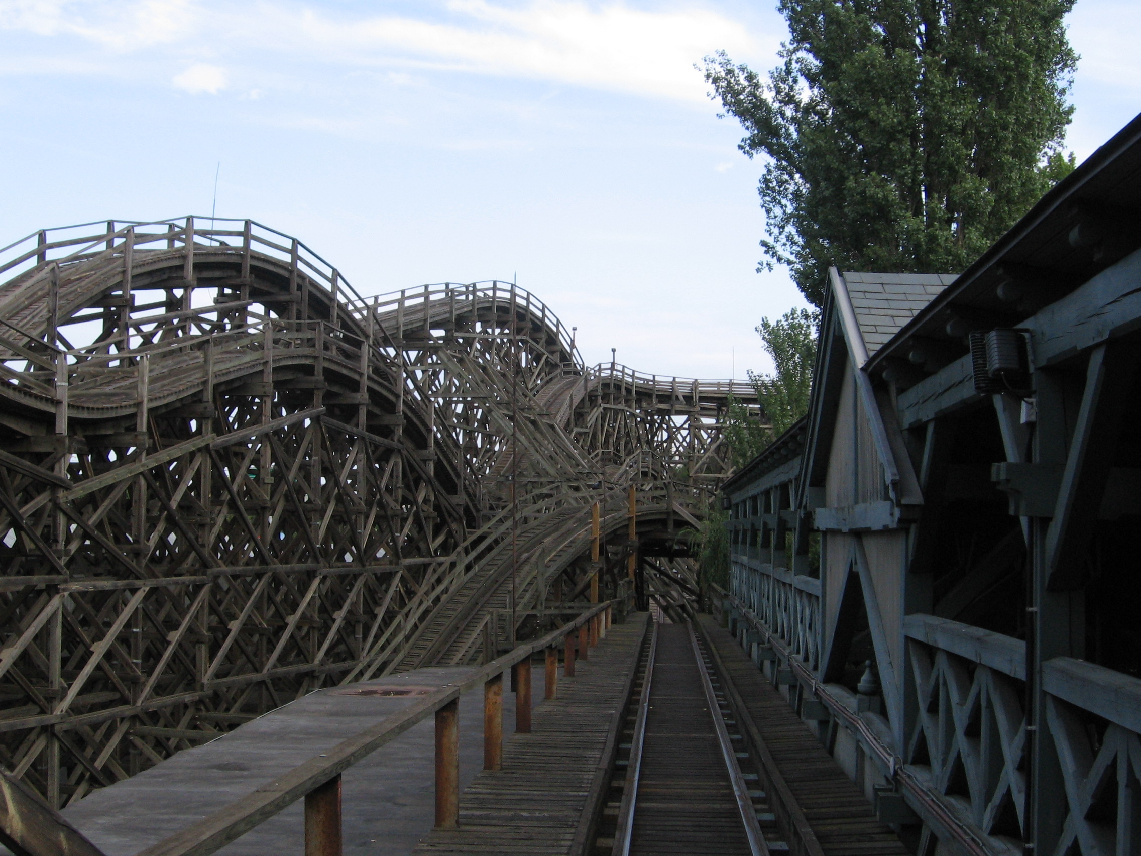 Wooden roller coaster in Budapest